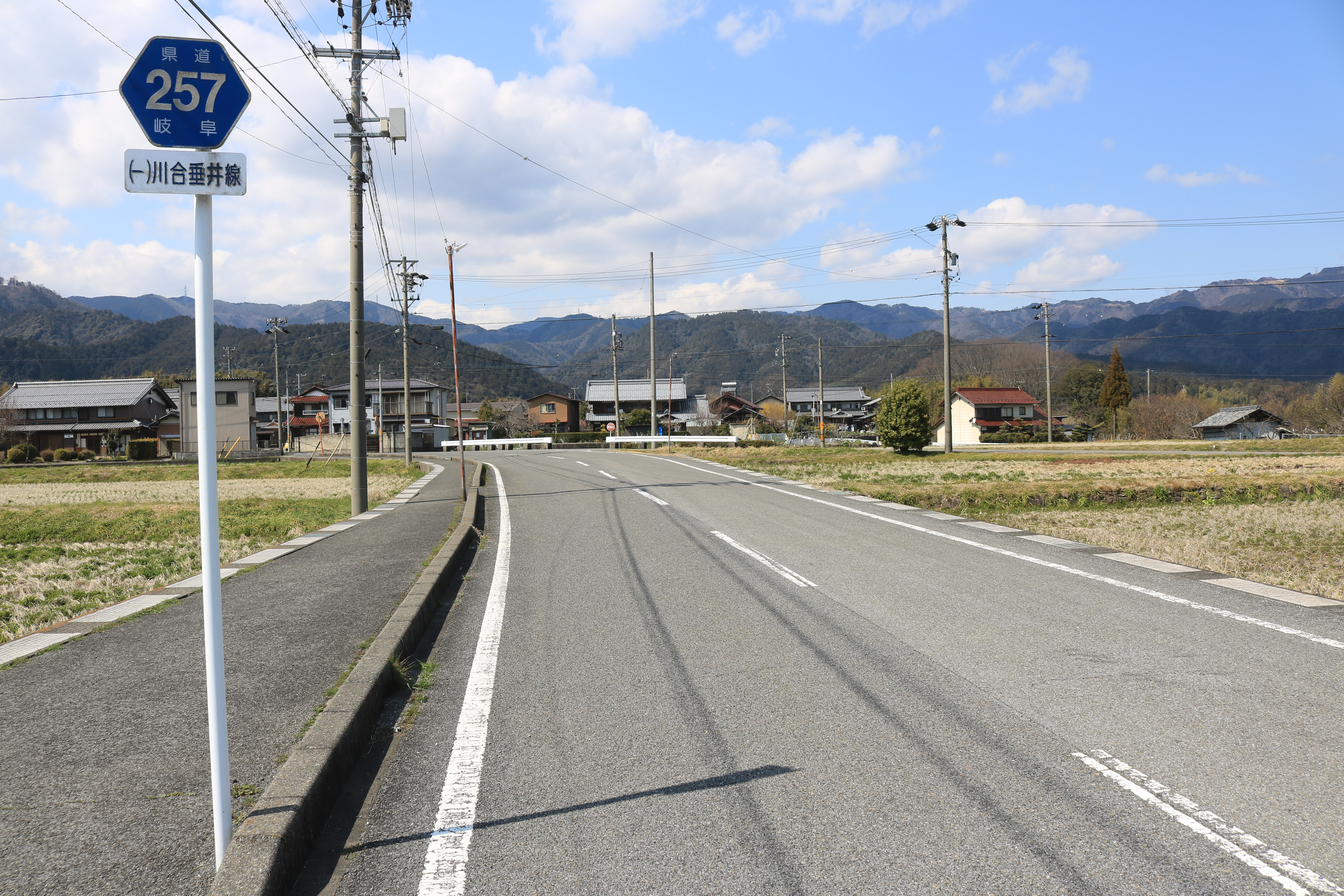 Gifu Prefectural Road Route 257 in Iwate, Tarui, Gifu prefecture, Japan.